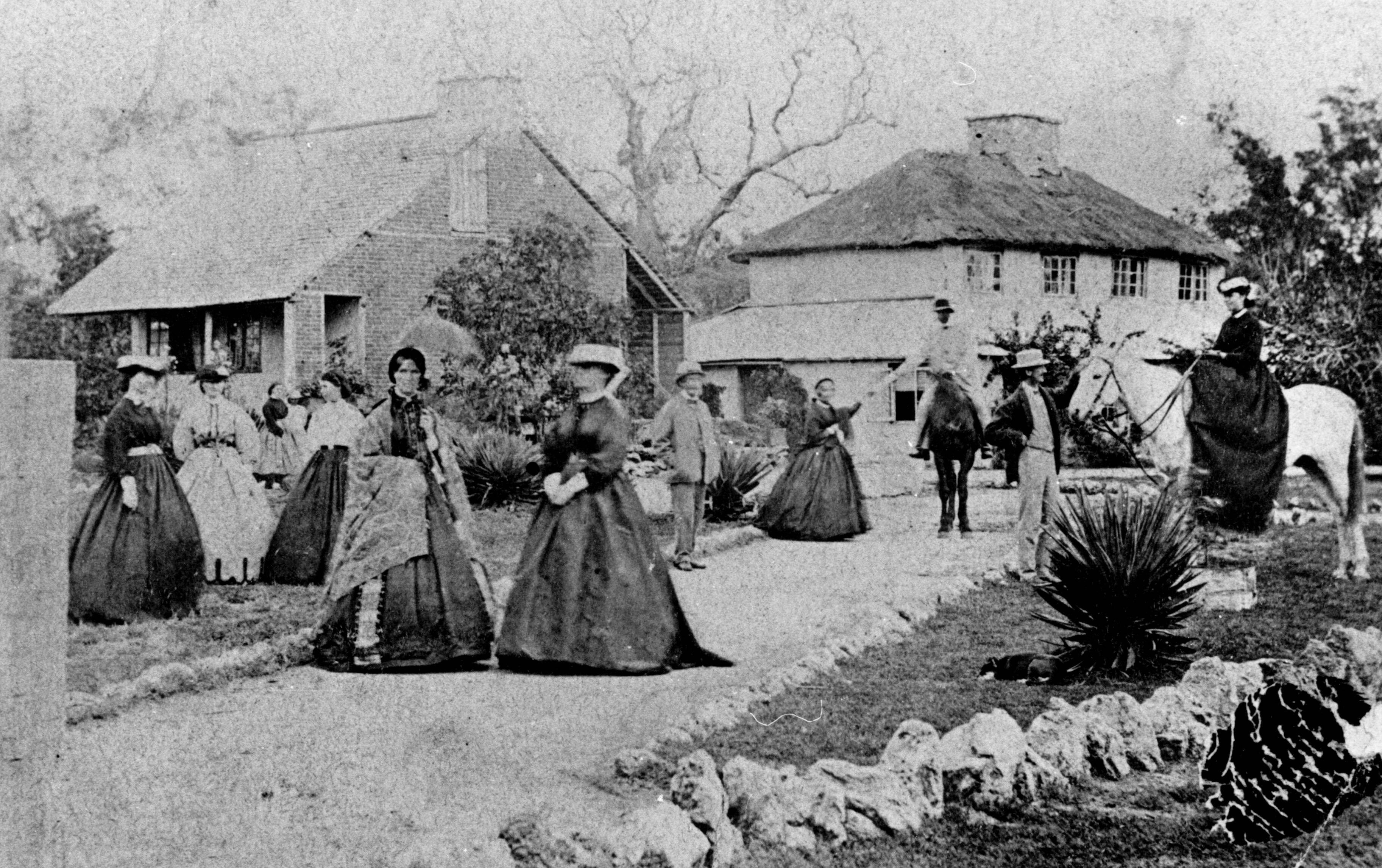 This image shows a photograph of members of the Bussell family, circa 1867. The original photograph is held by the State Library of Western Australia. A digital image of the photograph was created by the State Library of Western Australia and is available from the Library Information Service of Western Australia (LISWA) website. The LISWA image includes an assertion of copyright 2002, but this assertion is incorrect: the image is in the public domain under both Australian copyright law and US copyright law. This digital image is a cropped version of the LISWA digital image that eliminates the incorrect copyright notice.